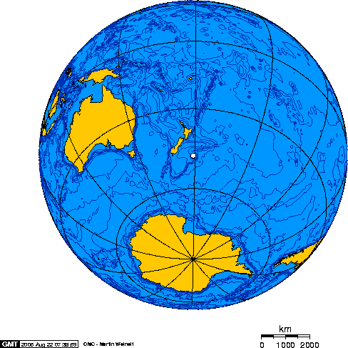 Orthographic projection centred over the Bounty Islands